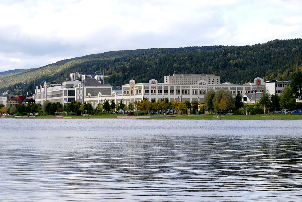 Aass Bryggerier, Drammen, Norway